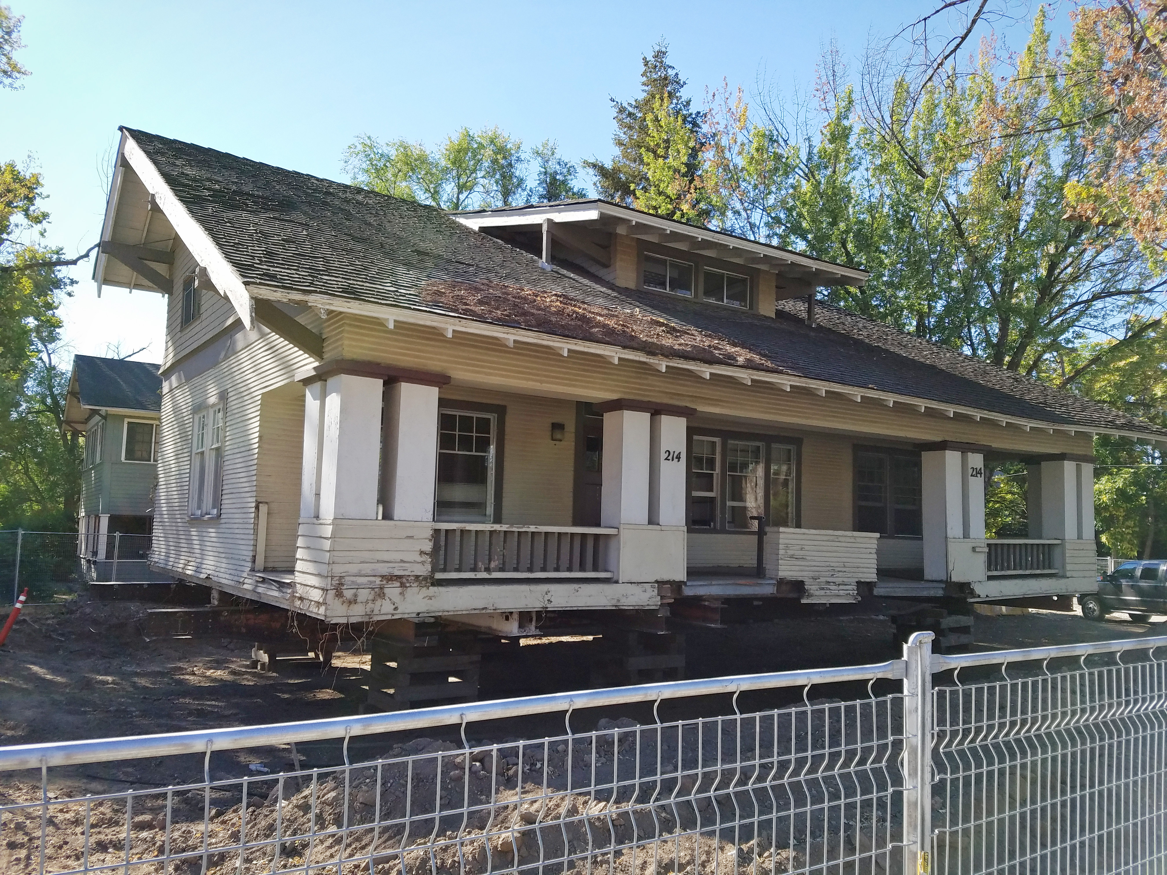 The Fred Reiger House (1910) in Boise, Idaho, was moved a short distance from its former location at 214 E. Jefferson St. to the corner of E. Bannock St. and Avenue B, August 17, 2018. House A at 214 E. Jefferson St. and its neighbor, House B at 218 E. Jefferson St., were designed by Tourtellotte and Hummel and built for Fred Reiger.